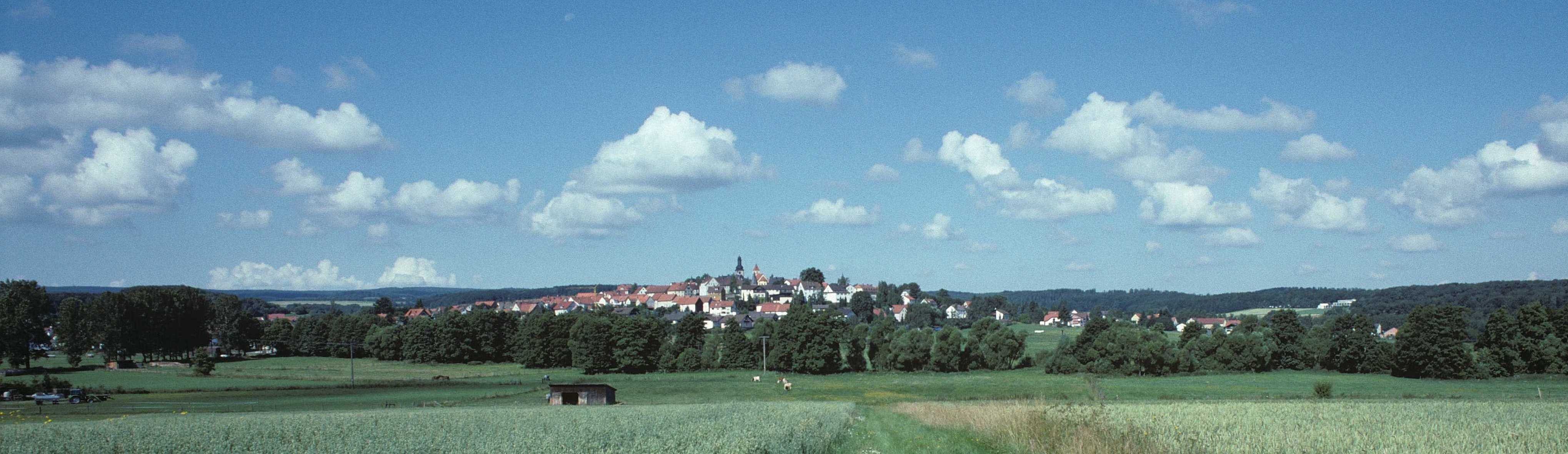 Herbstein / Hesse, Germany, the central place lying on top of a hill, view from the east